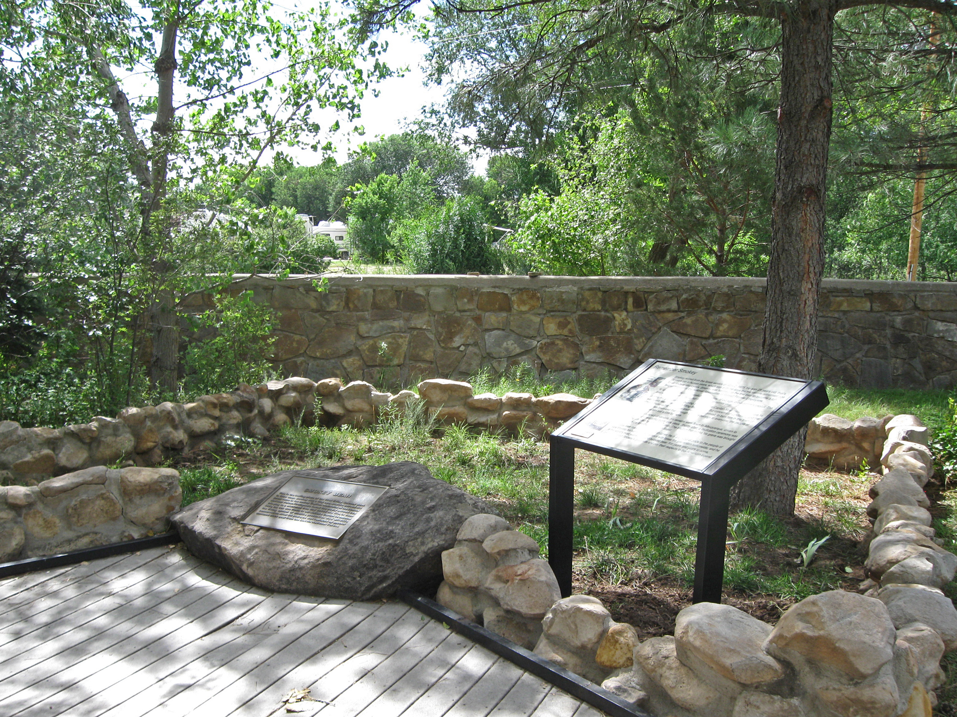 Gravesite of Smokey Bear (1950–1976), the first living symbol of the United States Forest Service mascot. The gravesite is on the grounds of Smokey Bear Historical Park in Capitan, New Mexico.